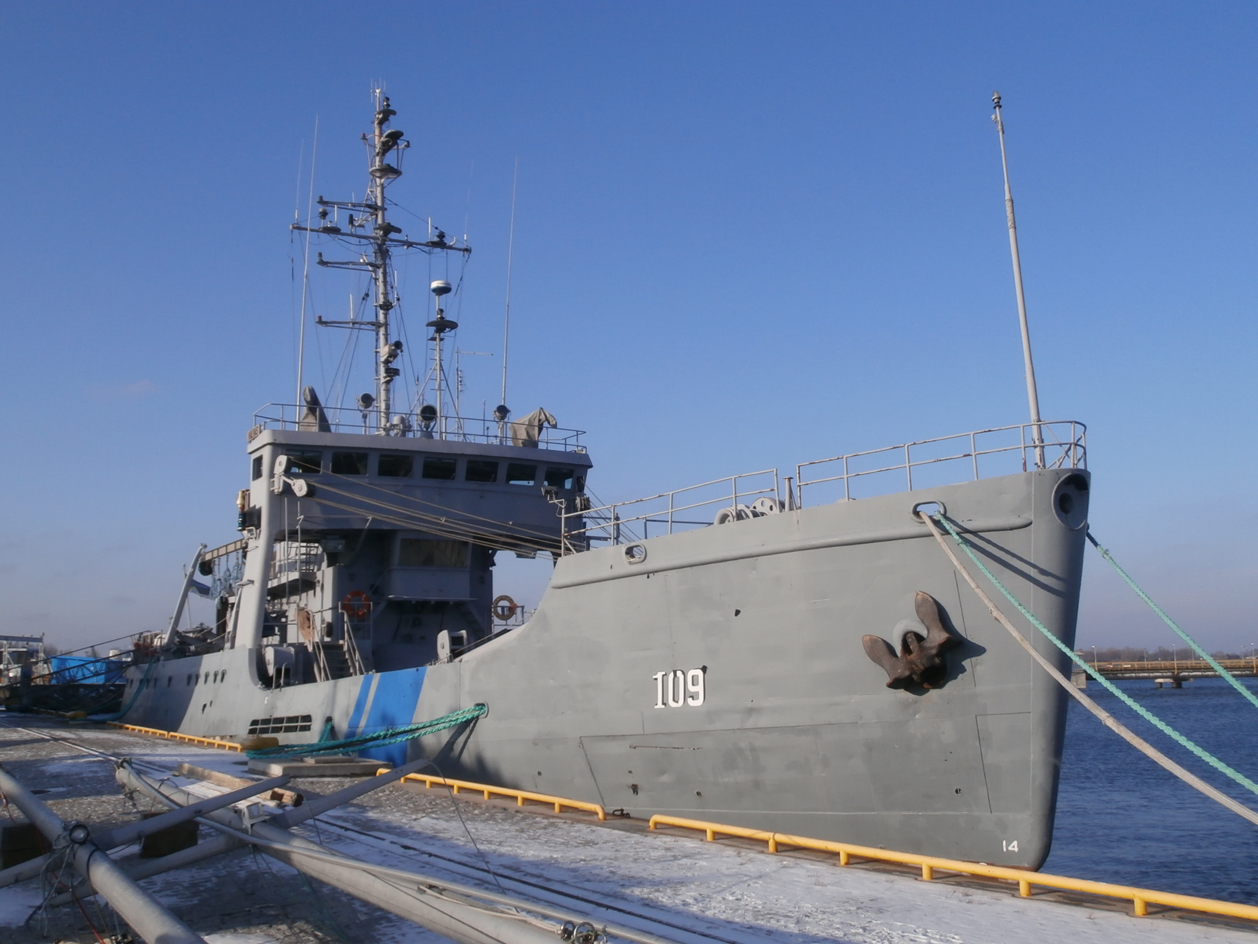 PVL-109 Valvas at quay A in Lennusadam Tallinn 30 January 2015